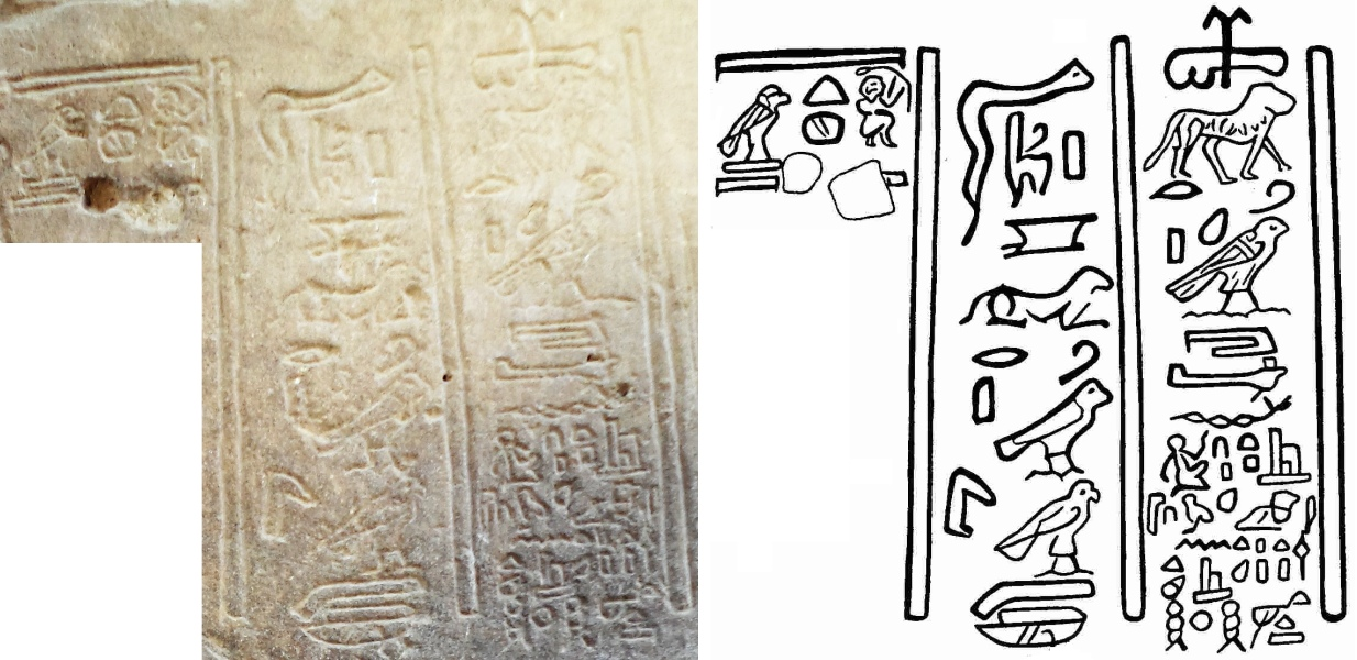 Graffito of Esmet-Akhom - hieroglyphic inscription (photograph + drawing)